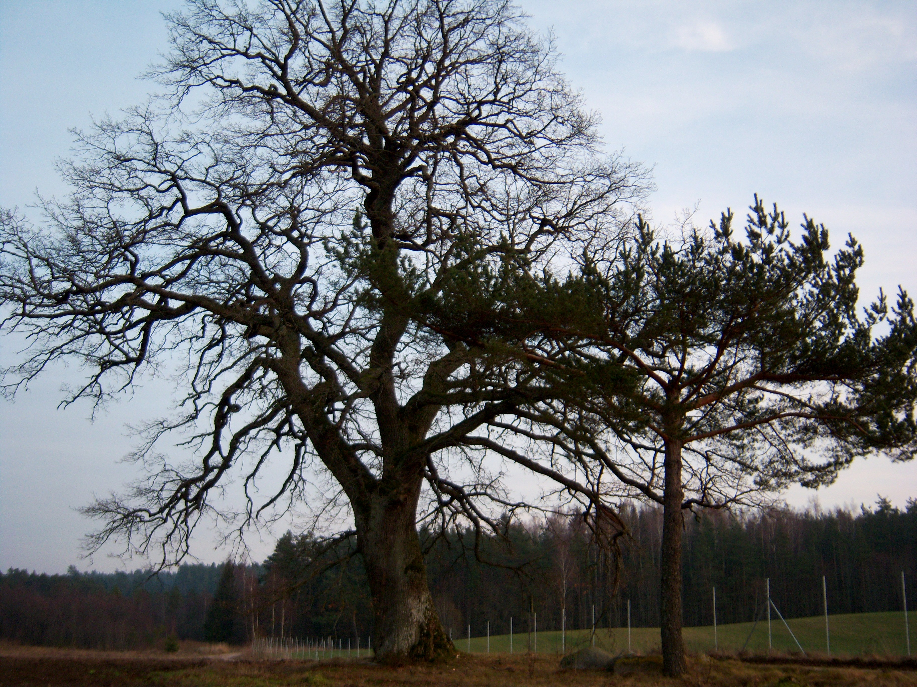 Panūdžiai Oak, Kelmė District, Lithuania